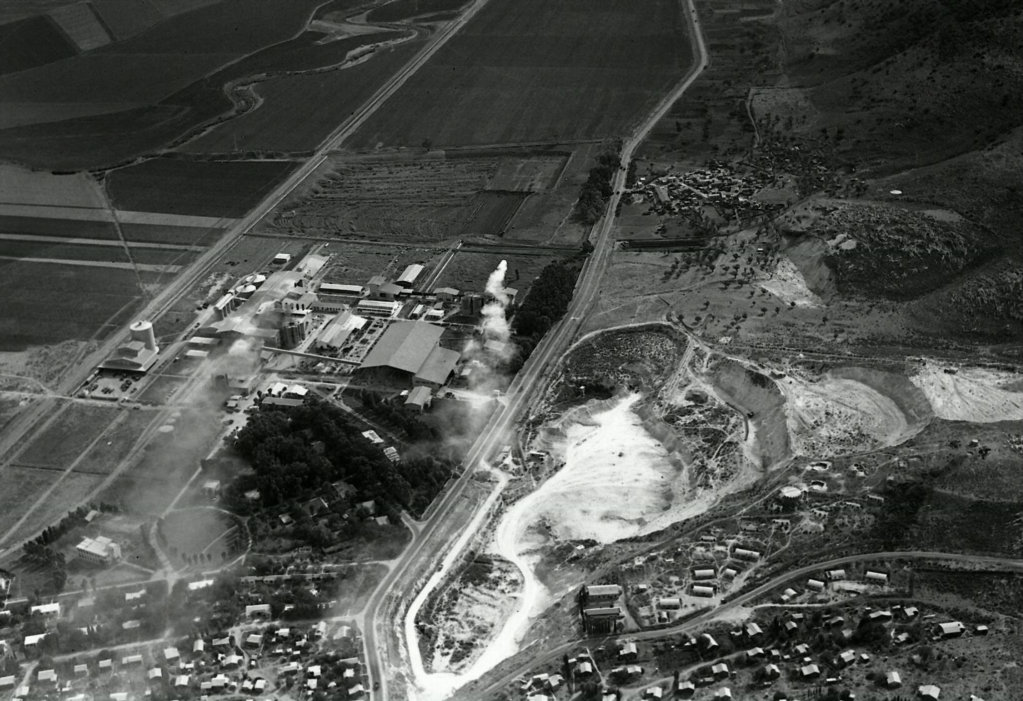 Aerial View of Nesher plant near Haifa.